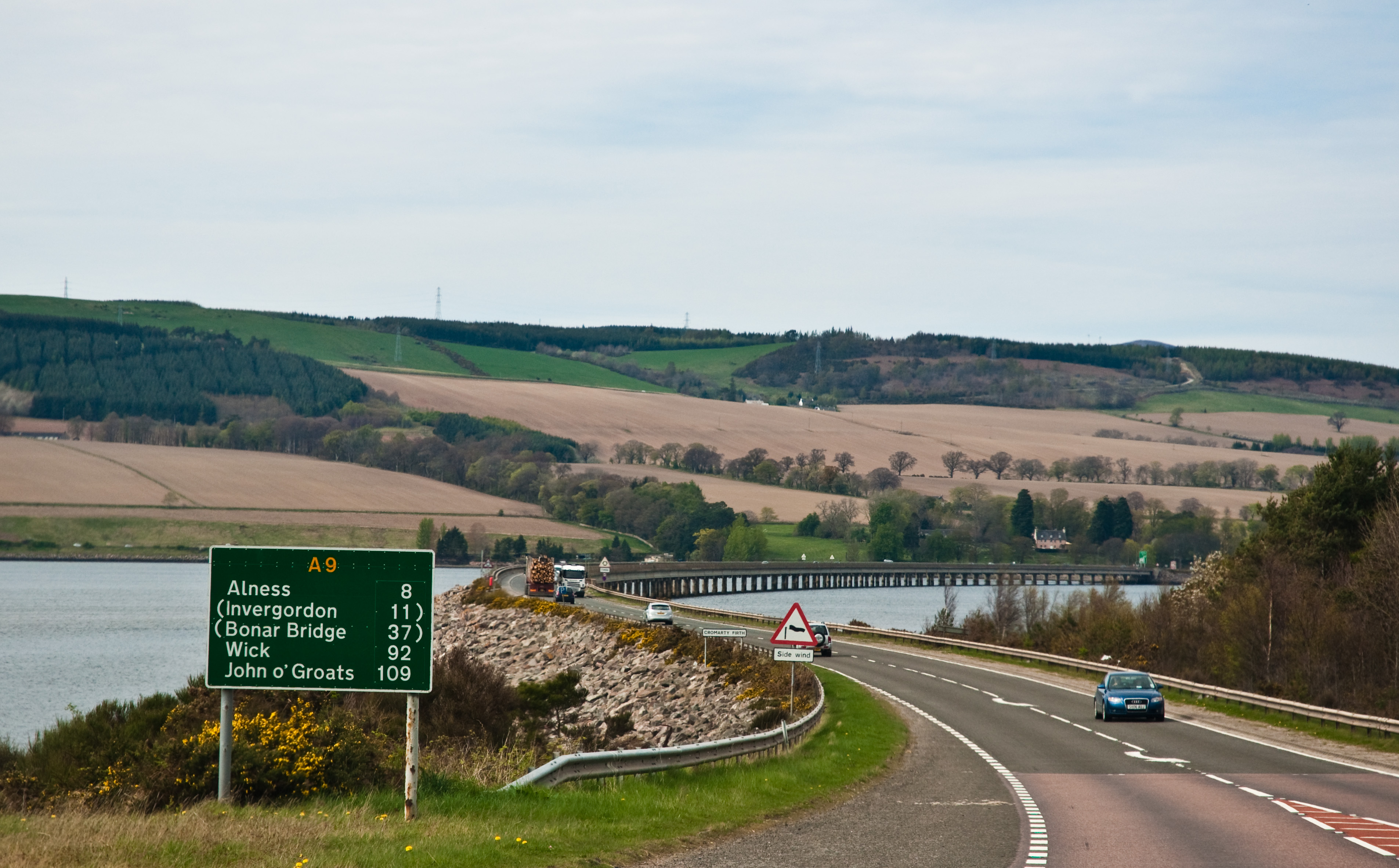 A9 near Dingwall, Ross and Cromarty, Scotland, 18 April 2011